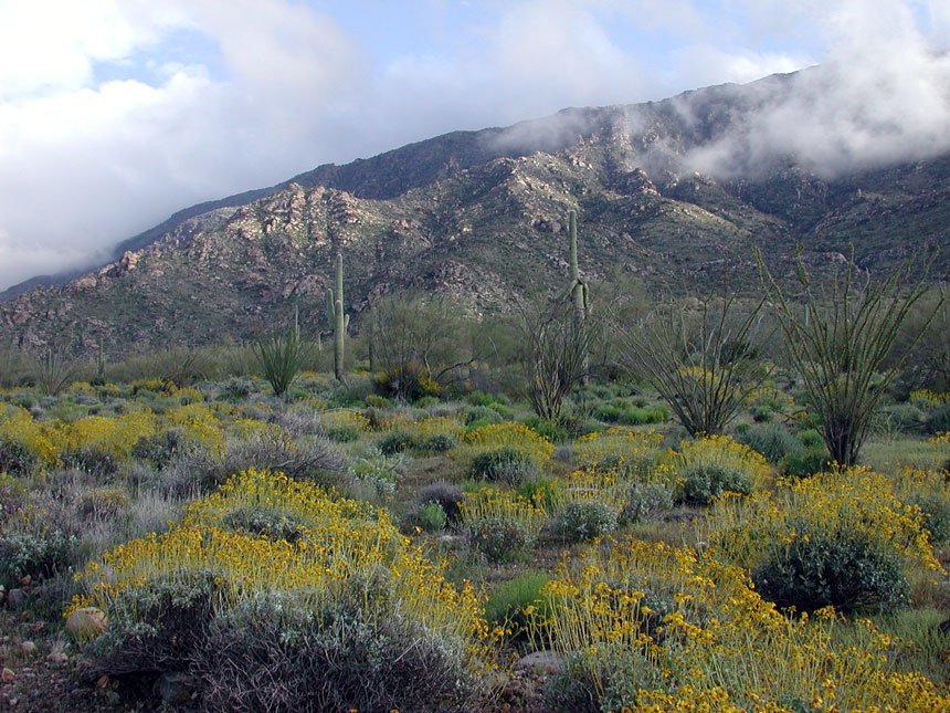 The Harquahala Mountains in La Paz County, southwestern Arizona. View from north with Sonoran Desert flora, including: Brittlebush (Encelia farinosa), Ocotillo, Saguaro Cactus (Carnegiea gigantea), and Triangle-leaf Bursage.